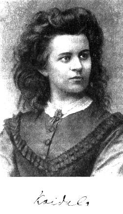 Portrait of Lydia Koidula. Circa 1865.